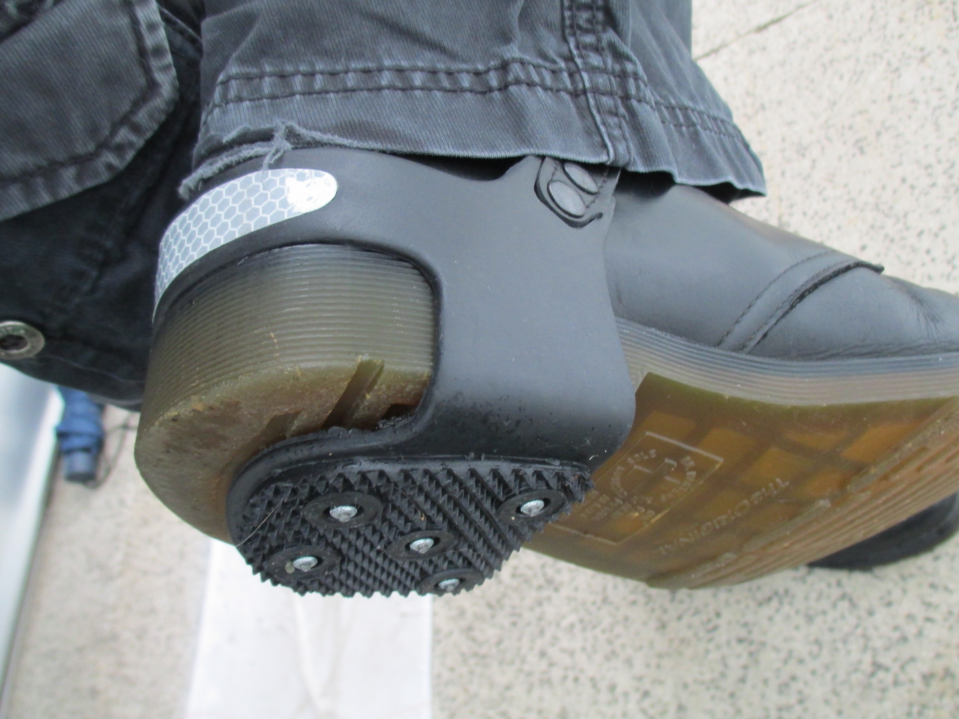 anti-skid pad sole